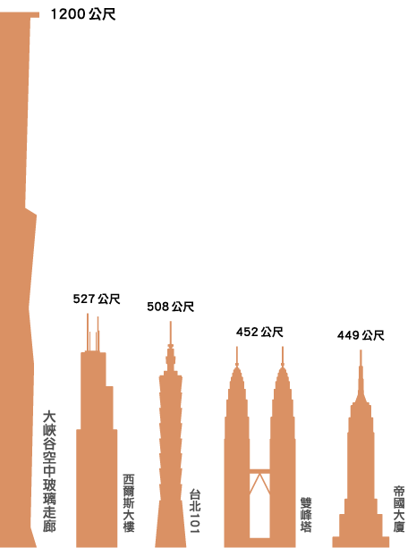 Comparison between Grand Canyon Skywalk and notable skyscrapers around the world. (Chinese verison)